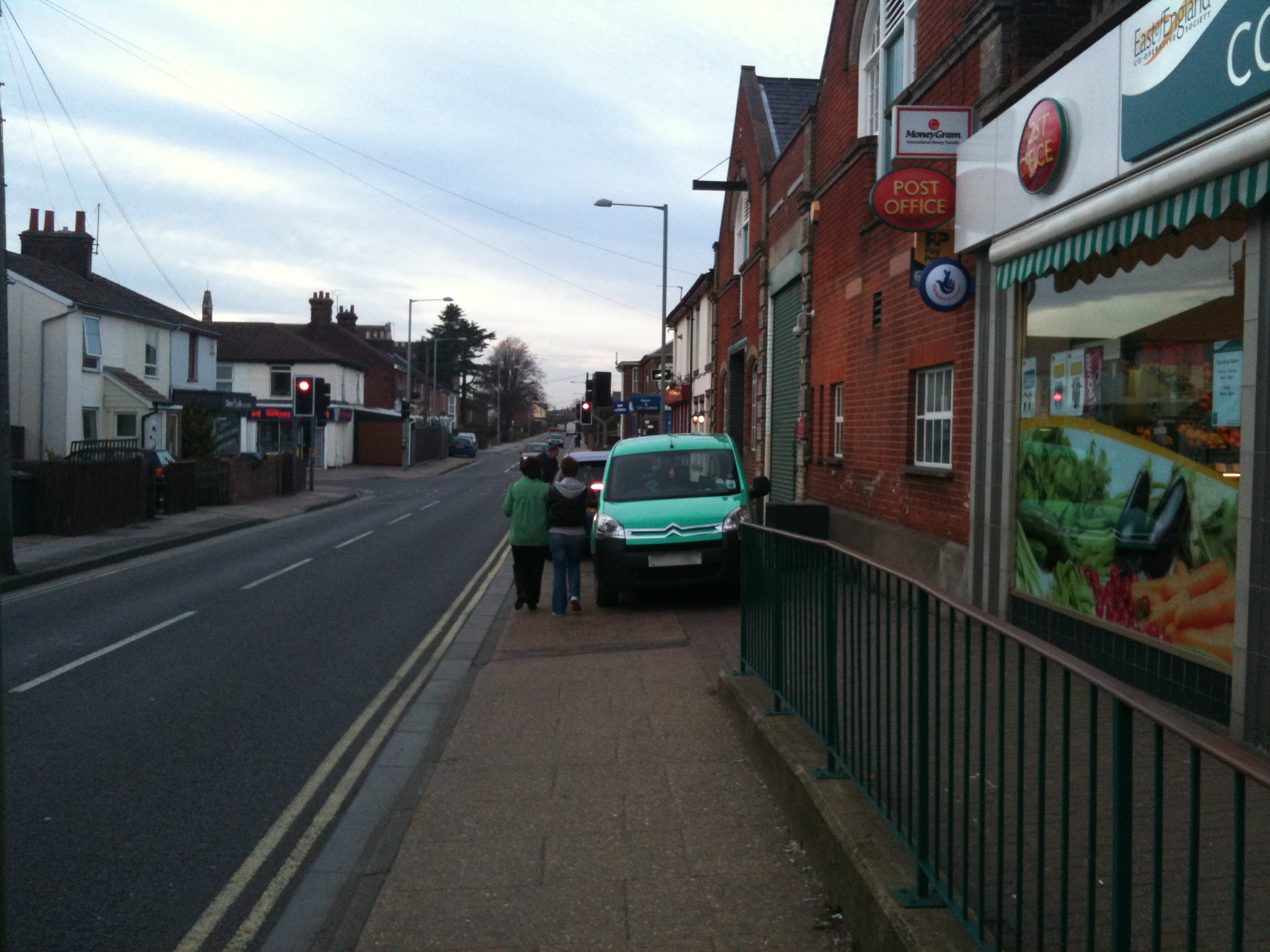 Pedestrians forced onto carriageway to pass past cars parked illegally on the pavement